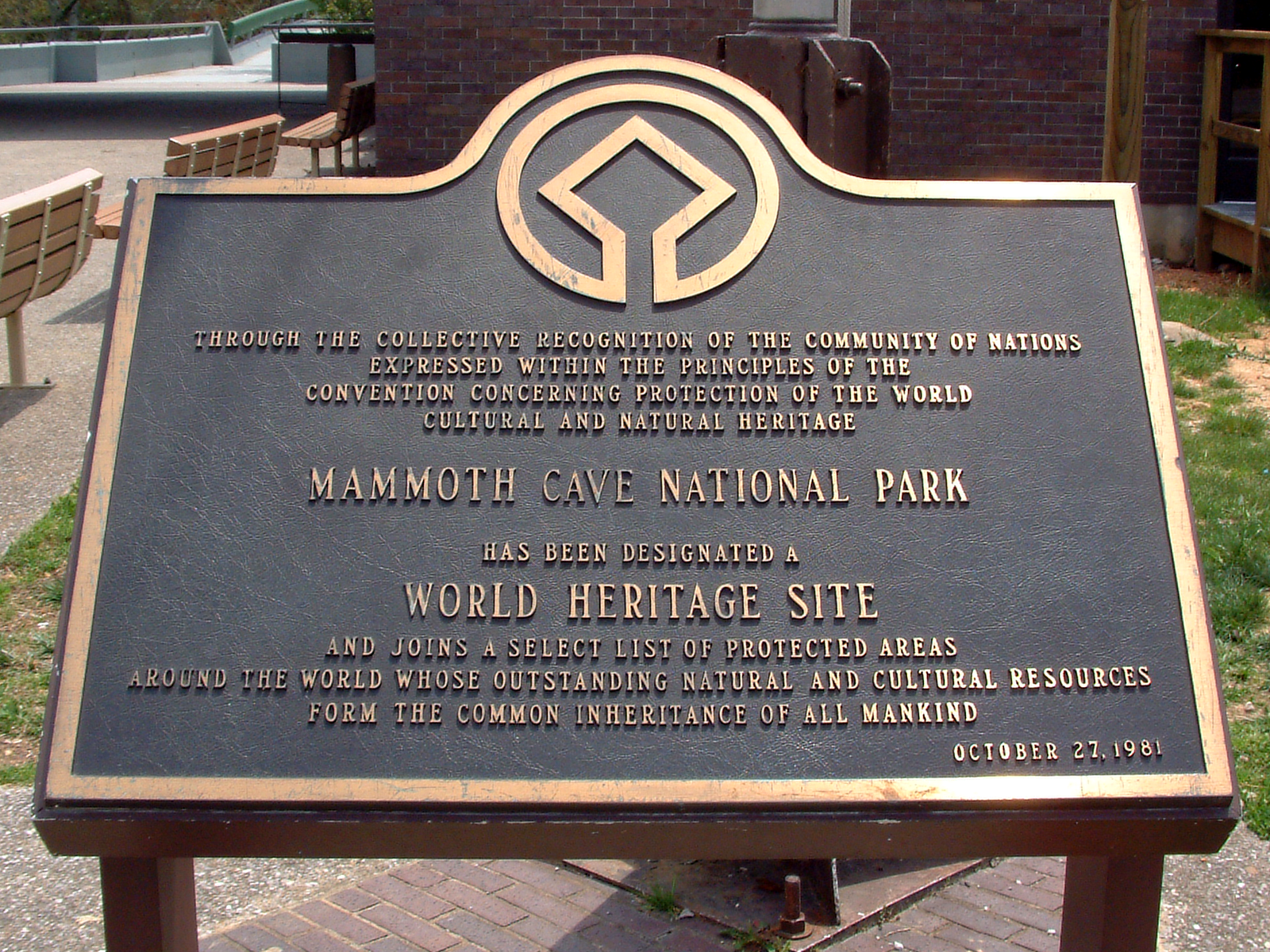 The World Heritage Site plaque outside the Visitor Center at Mammoth Cave National Park in Kentucky. It reads: Through the collective recognition of the community of nations expressed within the principles of the Convention Concerning Protection of the World Cultural and Natural Heritage MAMMOTH CAVE NATIONAL PARK has been designated a WORLD HERITAGE SITE and joins a select list of protected areas around the world whose outstanding natural and cultural resources form the common inheritance of all mankind October 27, 1981